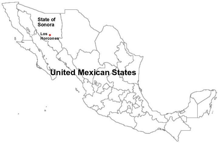 Map showing the location of Comunidad de los Horcones (a Walden Two community) in the State of Sonora, United Mexican States